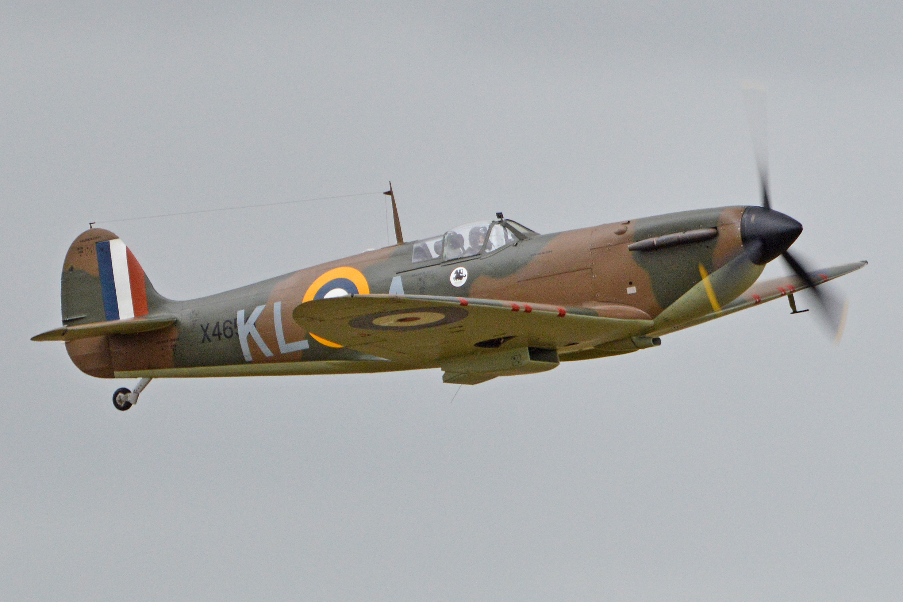 c/n 6S-75531. Wearing genuine 54sqn markings. 2015 Flying Legends Airshow. Duxford, Cambridgeshire, UK. 12-7-2015 The following info is from the Flying Legends website:- “X4650’s first flight was at Eastleigh on the 23rd October 1940. She was issued to 24 M.U. Tern Hill, Shropshire, UK on the 25th October 1940 on charge with 54 Sqn. Catterick, Yorkshire. She was involved in a mid-air collision in December 1940 and struck off charge in June 1941. The wreckage was discovered on the banks of the river Lever in 1976. The remains were acquired by Peter Monk in 1995 and soon after restoration work on her was commenced. First post restoration flight was from Biggin Hill in March 2012.”